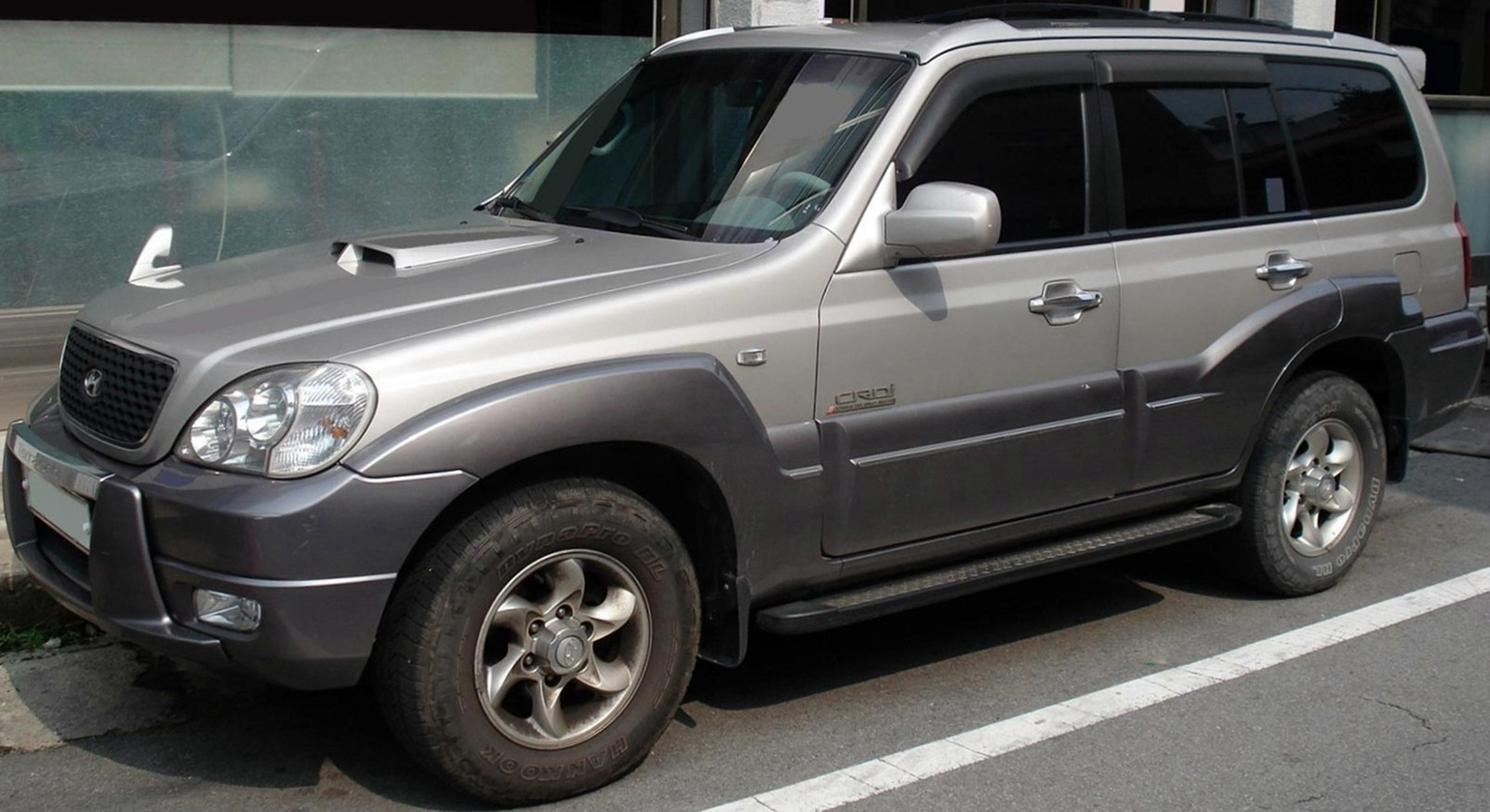 Hyundai Terracan